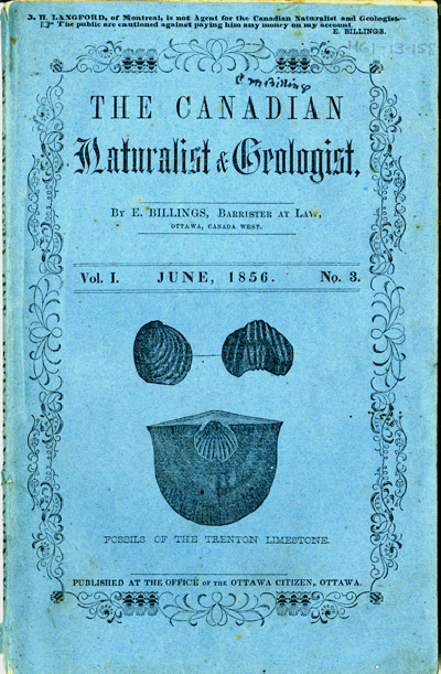 The Canadian Naturalist and Geologist front cover.